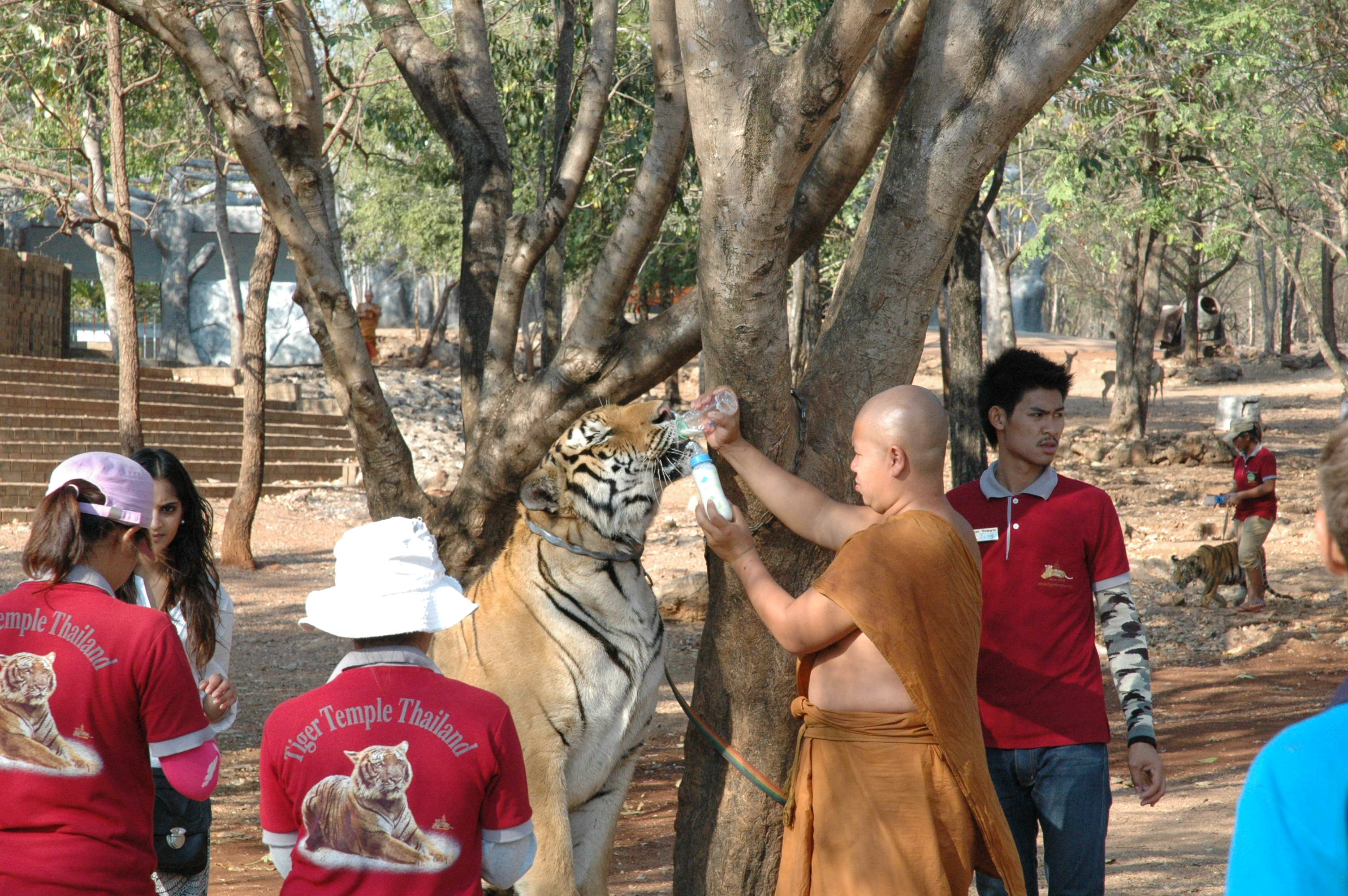 Feeding of tigers at Tiger Temple